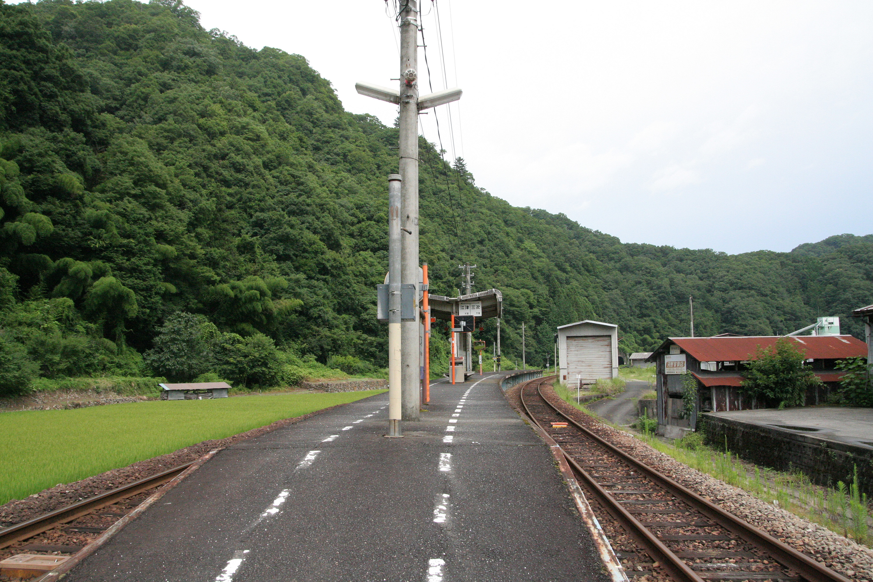 West Japan Railway Sankō Line Kuchiba Station enclosure